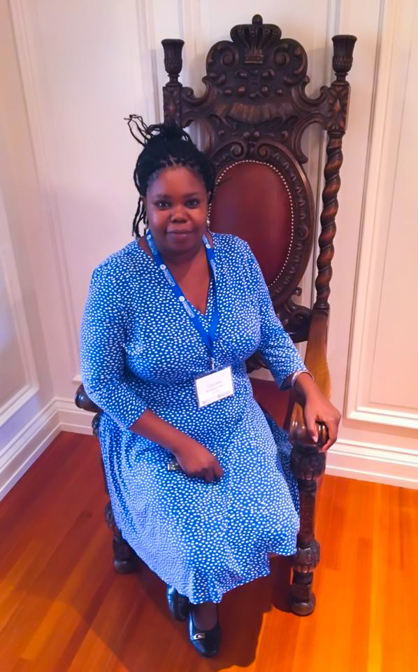 Geline is a founder of Tangible Initiatives for local development in Tanzania and a lawyer who works in human rights. She is a Mandela Washington Fellow 2016. She is a lawyer, human rights activist as well as a music producer. She was born in 1980 in Iringa region in Southern Tanzania.